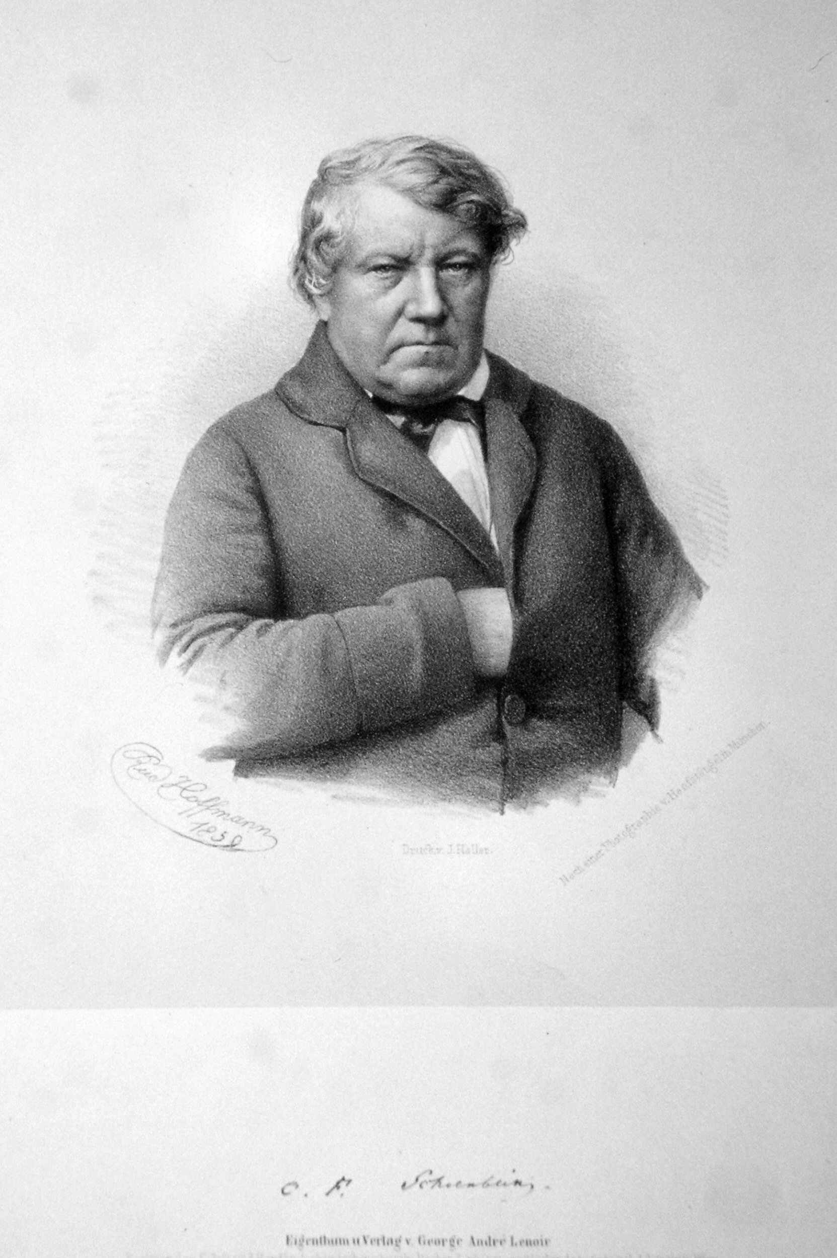 Christian Friedrich Schönbein (German chemist) 1799-1868; Lithograhy by Rudolf Hoffmann after a Photograph by Hanfstaengl, 1858